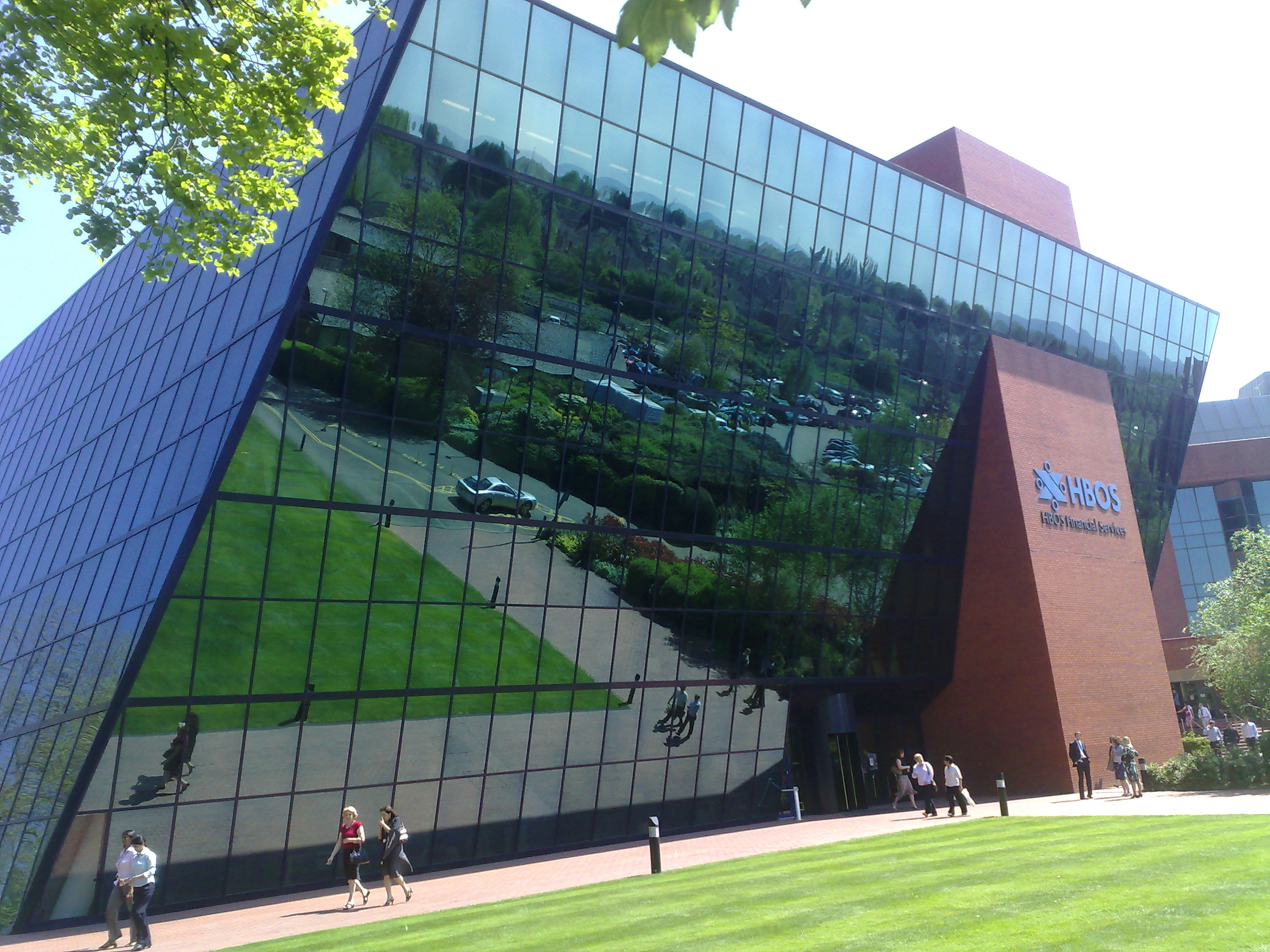 The Blue Leanie building at the HBOS site in Aylesbury.